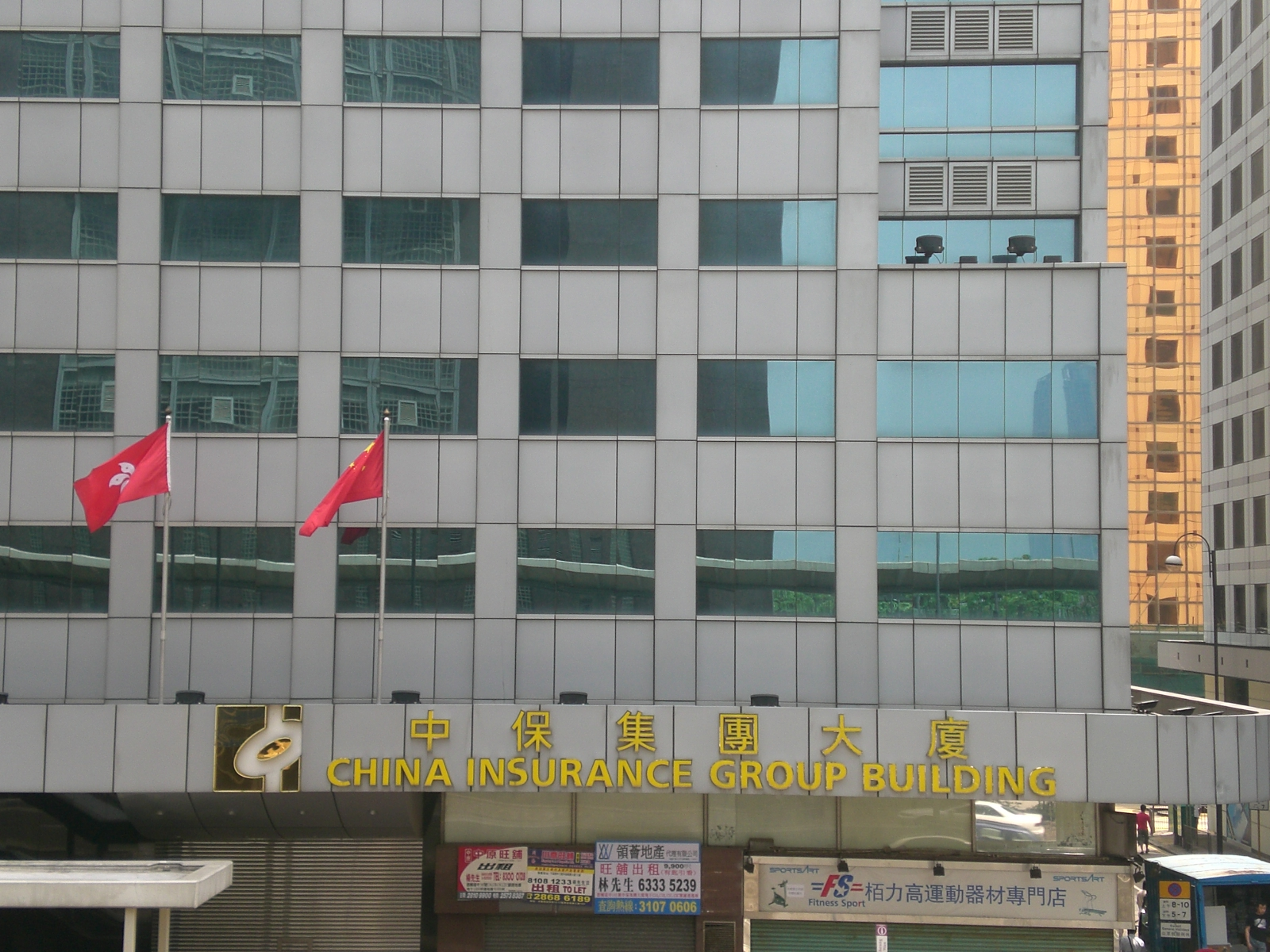 干諾道中 中西區 中環 Photographer is User:SeaLai Ho